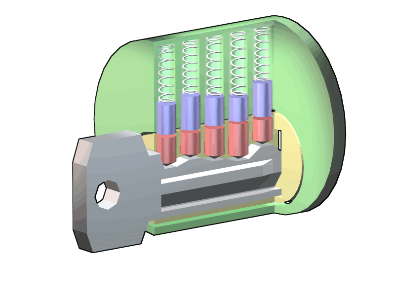 Diagram of the Pin tumbler lock. Made in Blender, and fine-tuned in the GIMP.